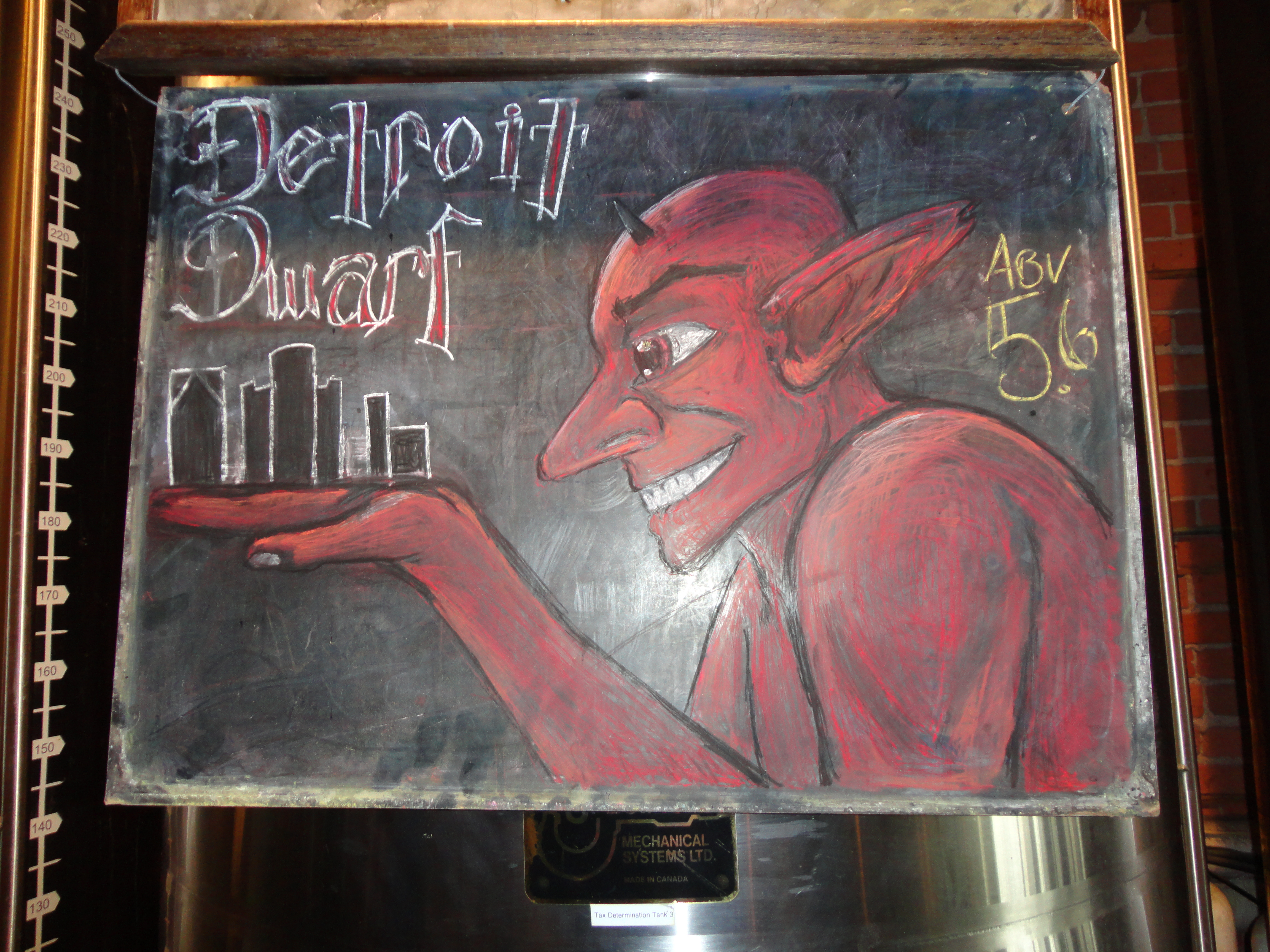 Representation of "Le Nain Rouge", or "The Red Dwarf", the mythical figure that haunts Detroit and is cause for all of the problems that plague the city.